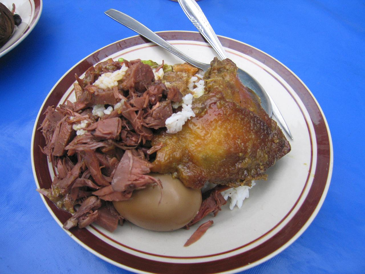 Gudeg, kerecek, egg, and chicken. Sold in front of Mutiara Hotel Malioboro.